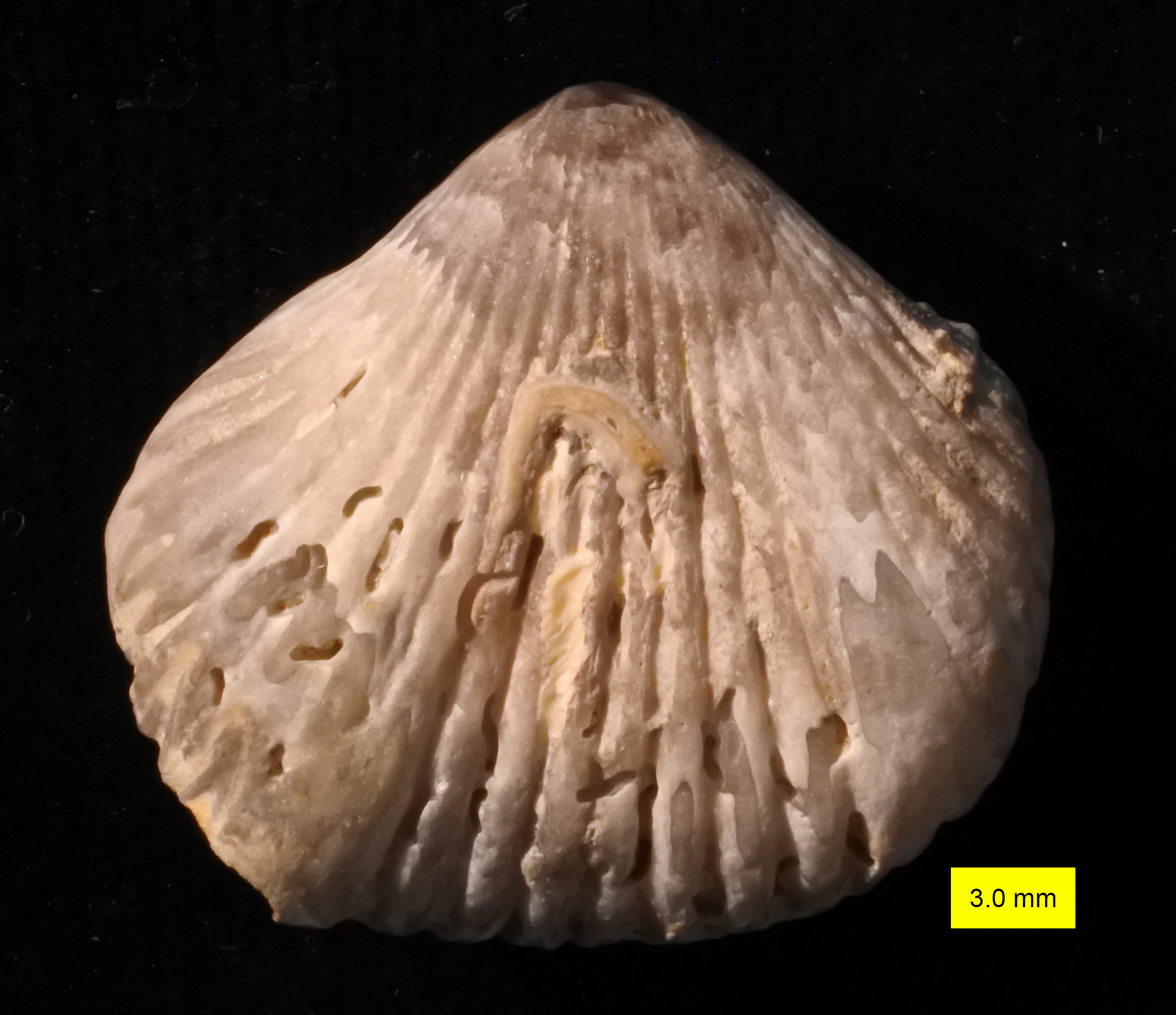 Kutchirhynchia morieri, Luc-sur-Mer, France, Middle Jurassic (Upper Bathonian), ventral view. Collected by Clive Champion.